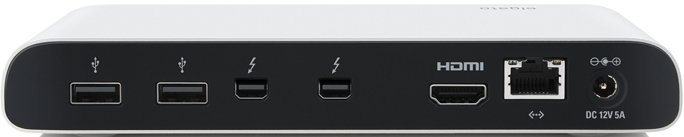 A rear view of the Elgato dock, which shows the available ports